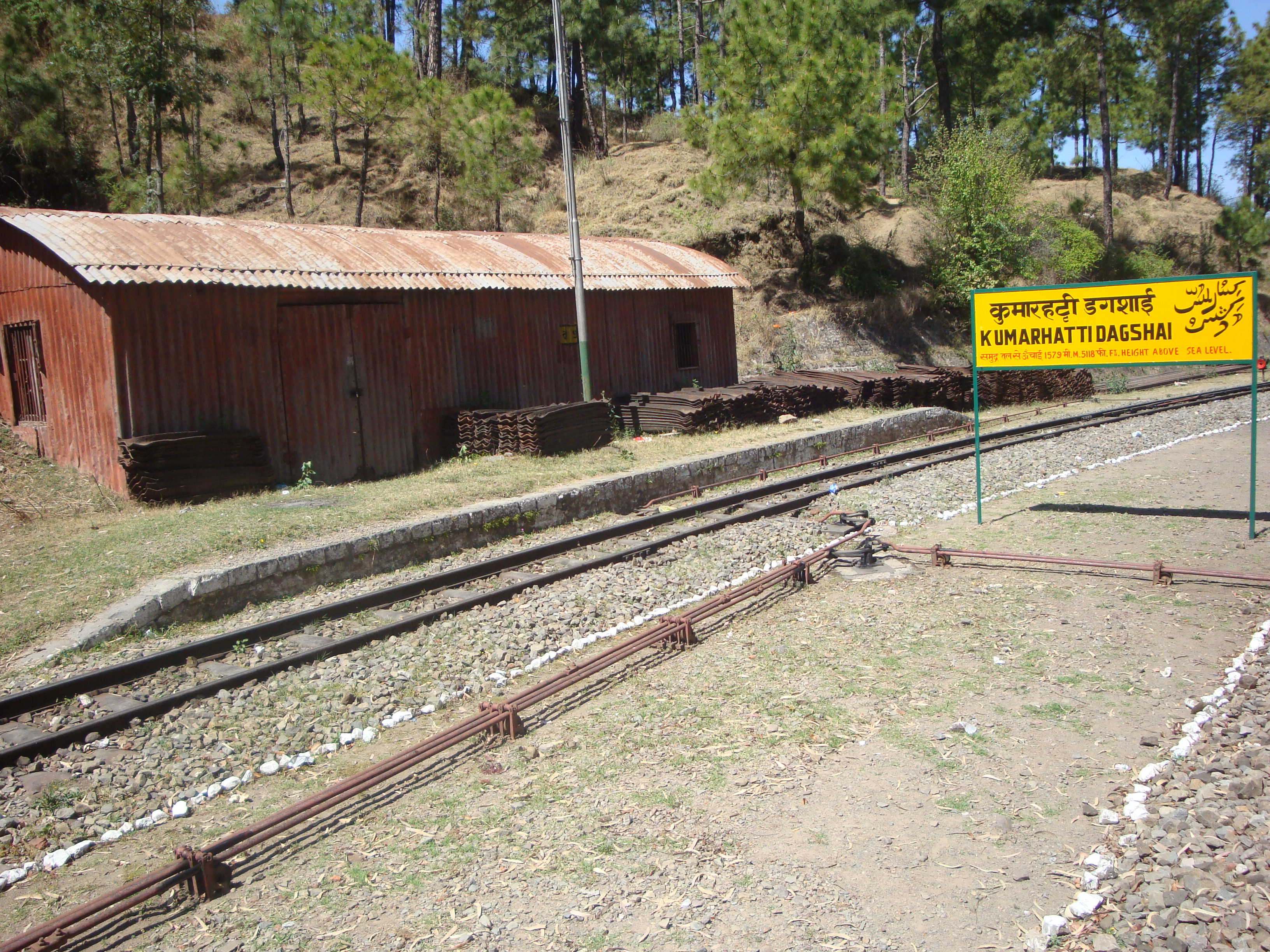 Kumarhatti Dagshai Railway Station, Himachal Pradesh, India. 5118 feet above the sea level.